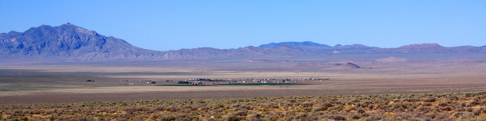 Rachel, Nevada, USA, town and surrounding mountains from the northern boundary of Area 51